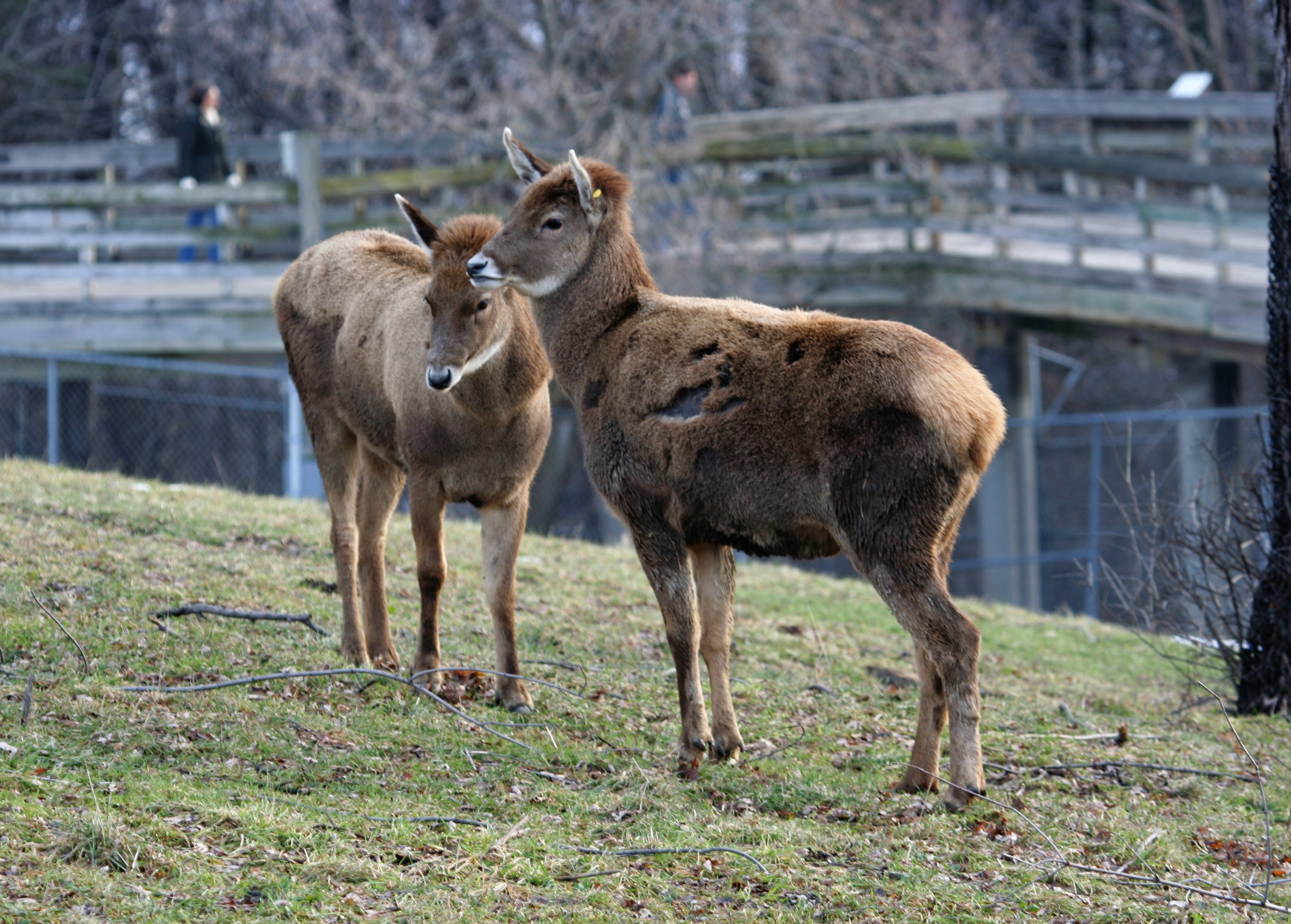 Thorold's deer (Cervus albirostris) at the Rosamond Gifford Zoo, Syracuse, New York.